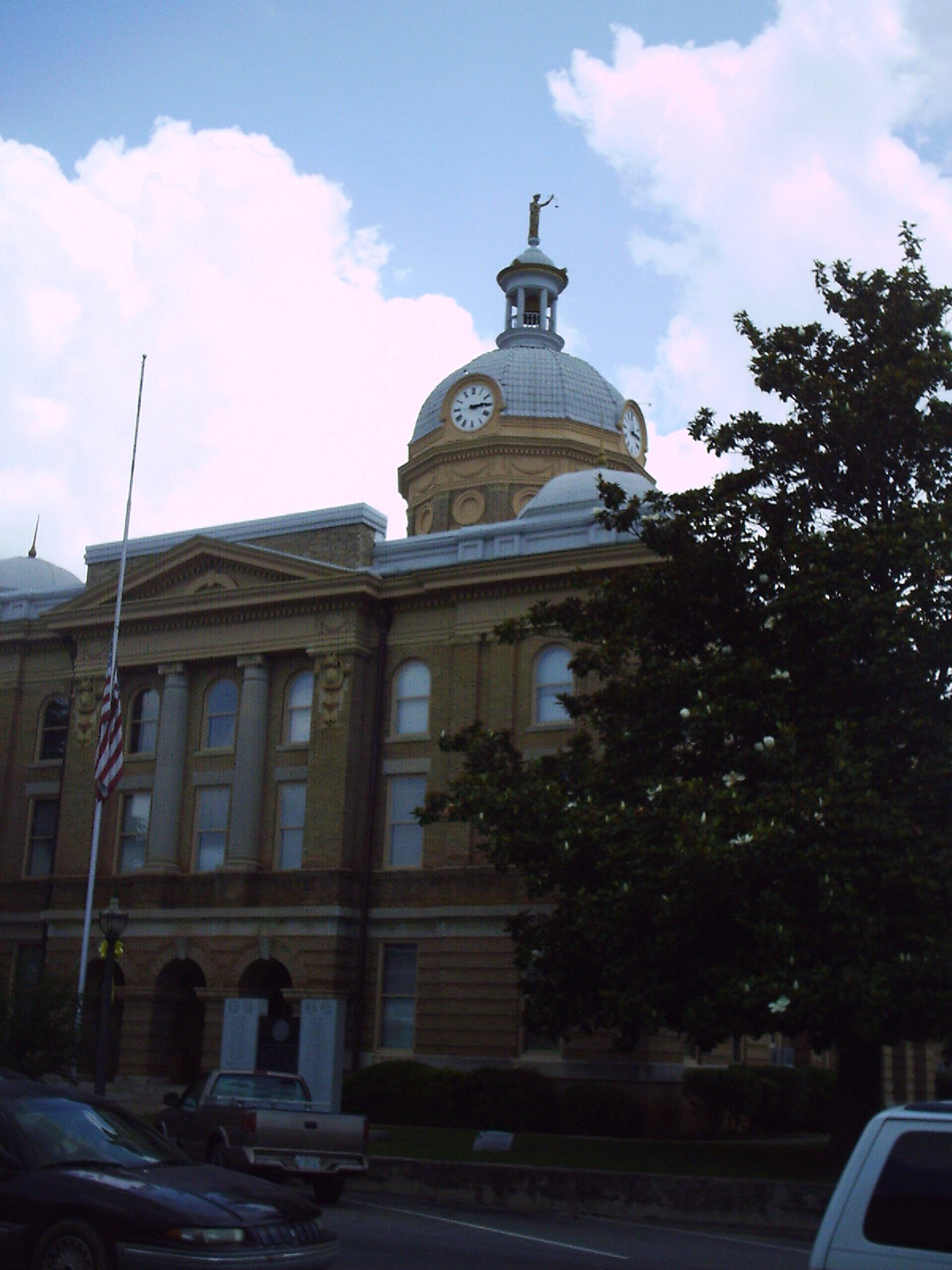 Ashland, Alabama, Clay County Courthouse